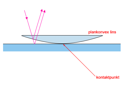 By placing a plano-convex lens on a flat surface, circular fringes called Newton's rings can be seen when the film is illuminated with monochromatic light.